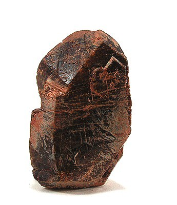 Monazite Locality: Madagascar (Locality at ) A rare monazite crystal, SHARP as heck, and complete. This is a very fine example for the species in quality of form and crystallography and is likely an older piece from the early to mid 1900s, of which much was brought home from madagascar by French geologists such as Jean Behier who worked there. 3.1 x 1.9 x 0.6cm